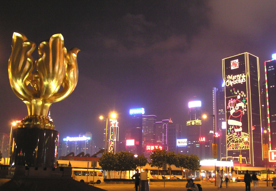 The Golden Bauhinia Square, Wan Chai, Hong Kong, China The photograph was taken by Alan Mak in December, 2004.